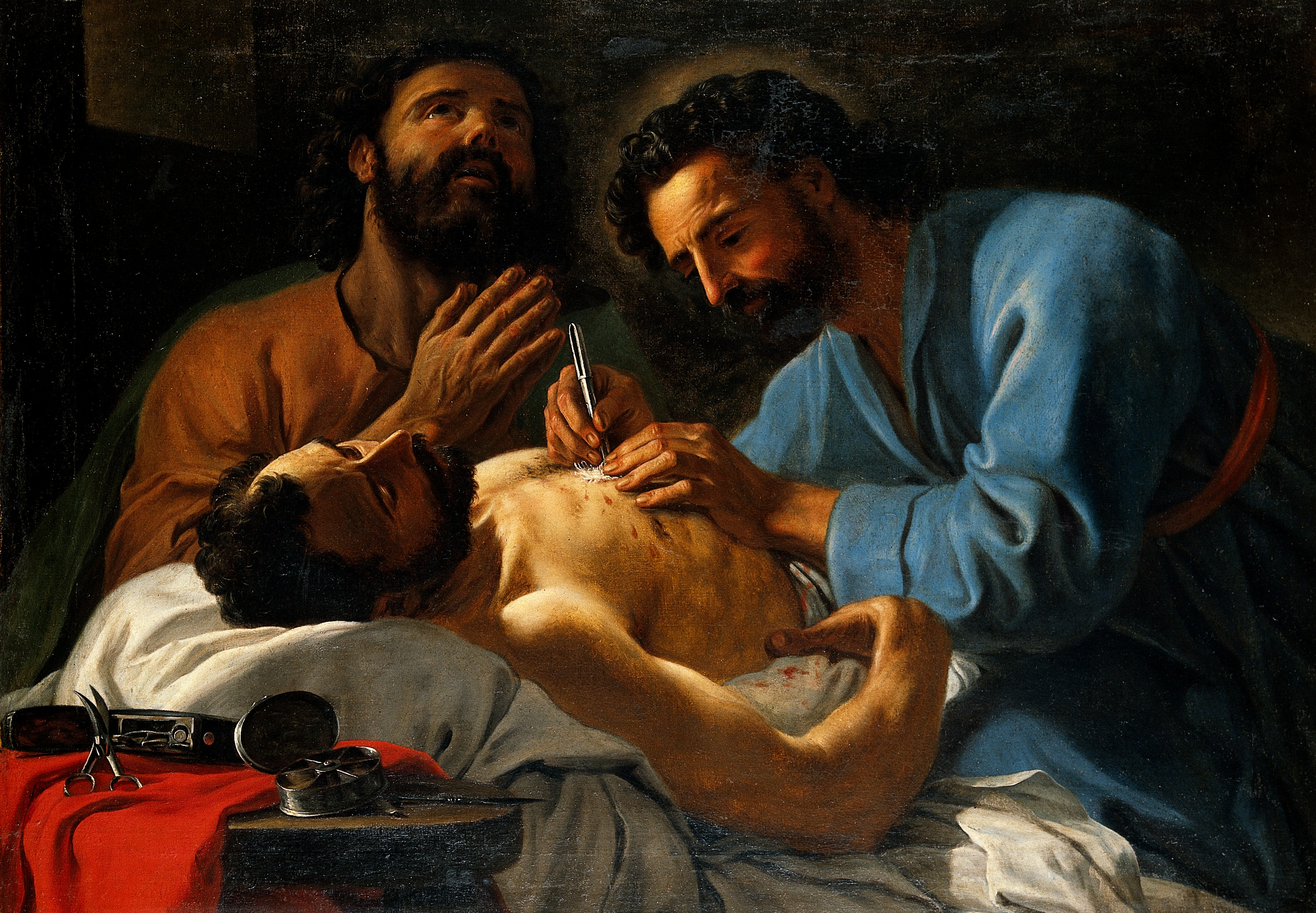 SS. Cosmas and Damian dressing a chest wound. Oil painting by Antoine de Favray. Iconographic Collections Keywords: damian; name; Antoine de Favray; Plaster; Men; Christianity; cosmas; Saint; Prayer; Praying; Tools